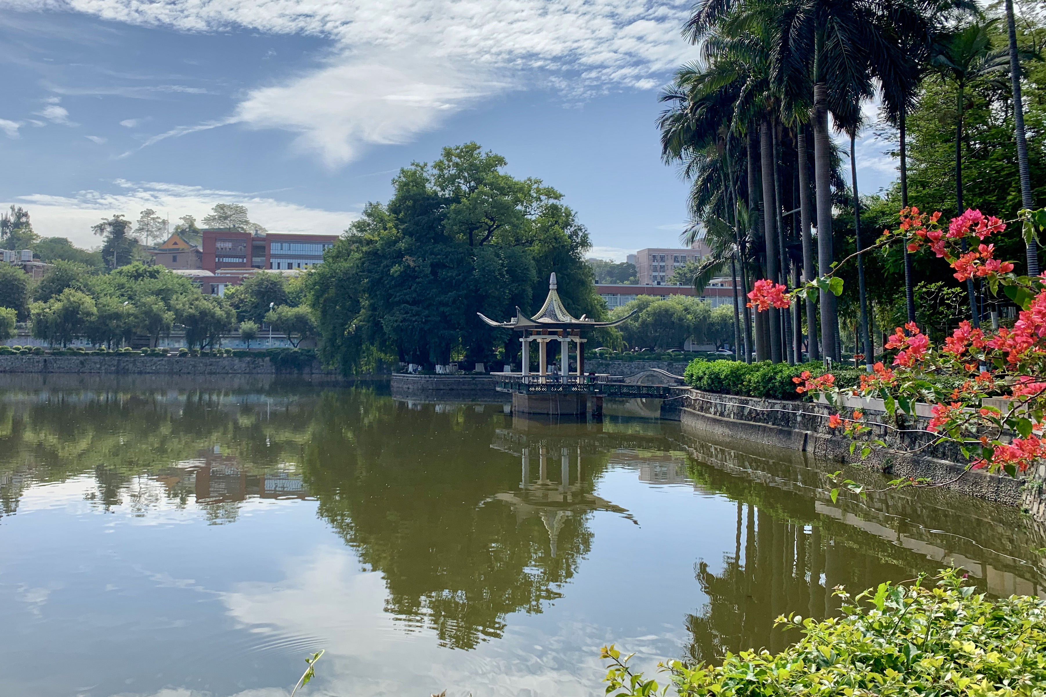 The Treasure Island (Jinyin Island or "Lover's Island") and pavilion ("Break Up Pavilion") in the West Lake of South China University of Technology Wushan Campus (North Campus).